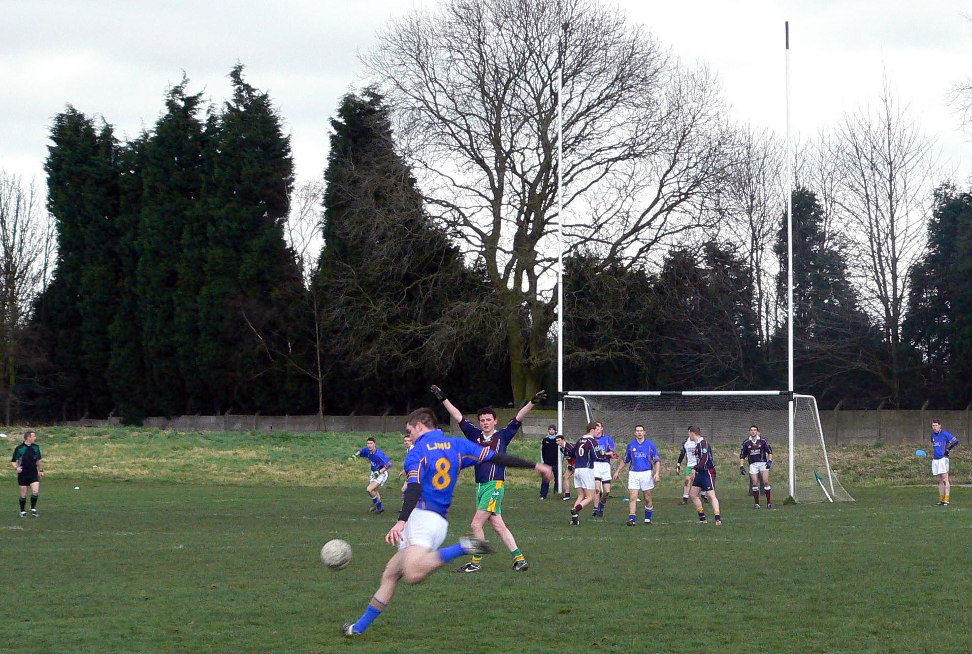 British University Gaelic football Championship Final Liverpool John Moores University 1-13 -- Napier University 0-7 Birmingham - 2008